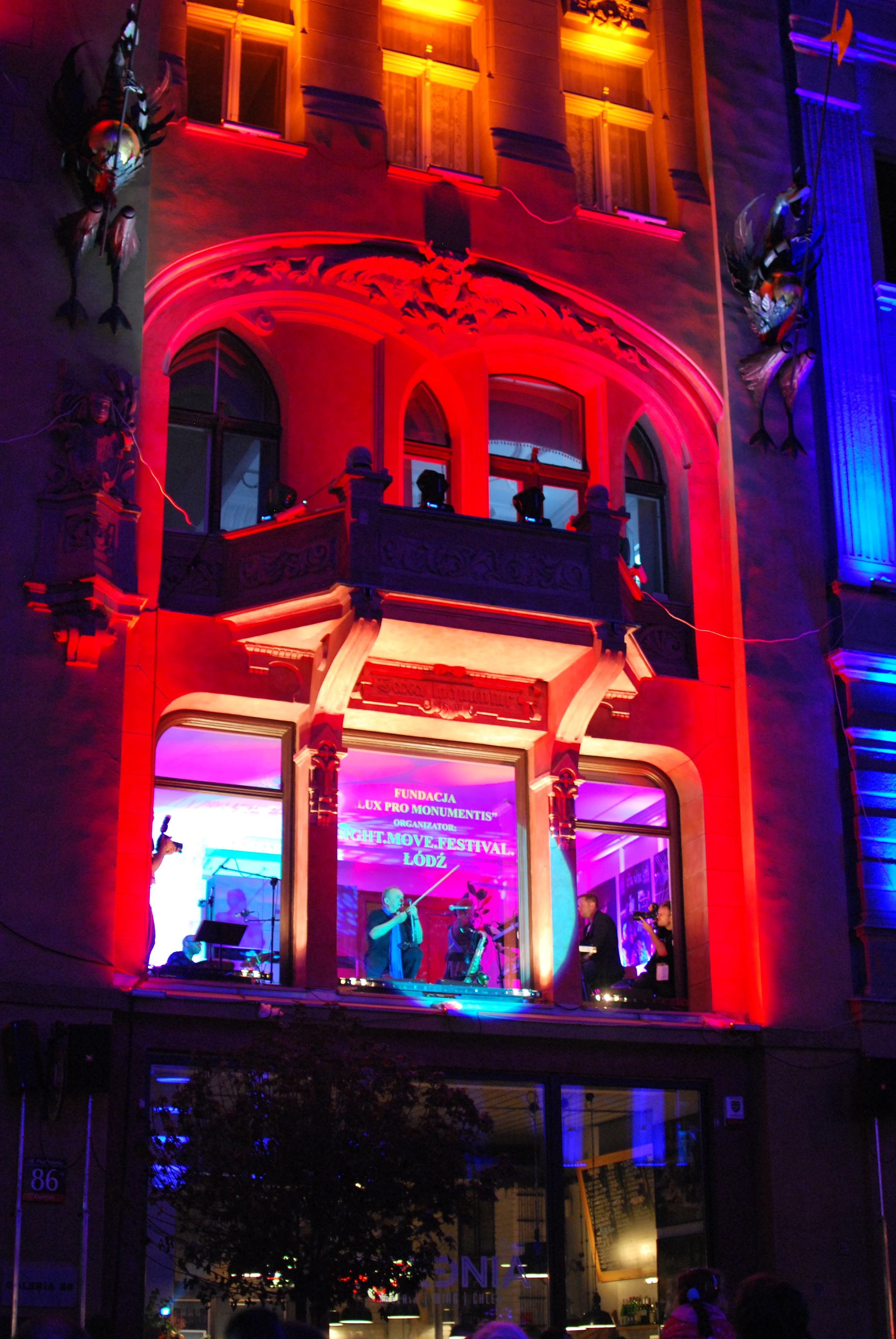 Light Move Festival Łódź 2014